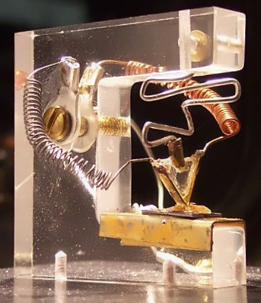 Replica of the first bipolar Transistor. This replica was photographed at the Heinz Nixdorf MuseumsForum, Paderborn, Germany.